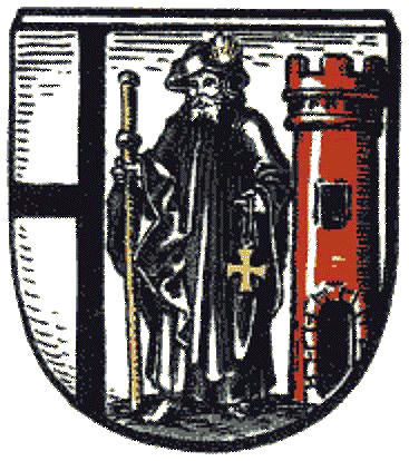 old coat of arms of Allenstein, Eastern Prussia (today Olsztyn, Poland) until 1937